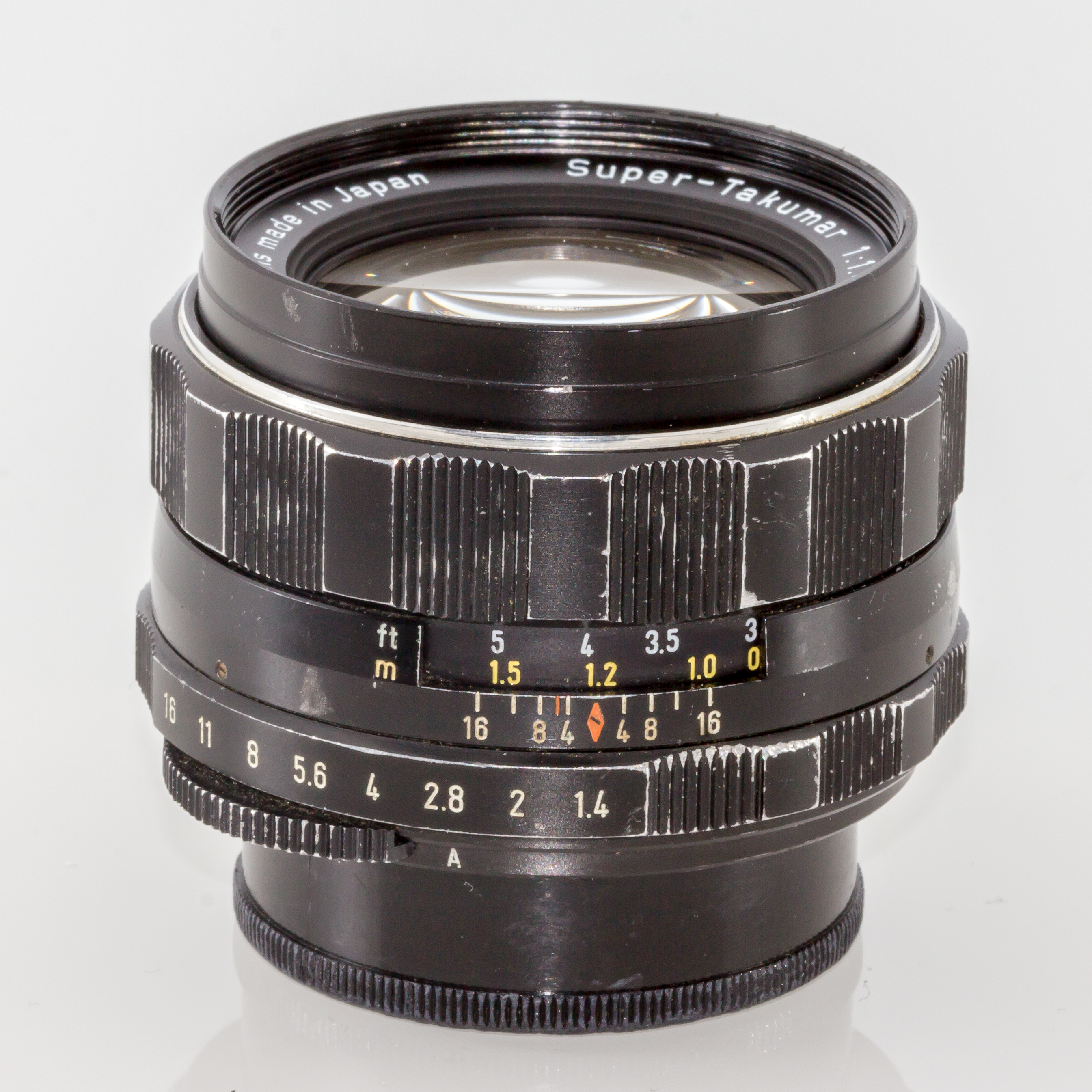 Super-Takumar 50mm F1.4